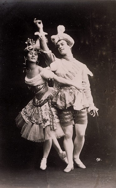 Anna Pavlova as Armide and Vaslav Nijinsky as viscount René in the 1911 production of the Ballets Russes ballet Le Pavillion d'Armide.